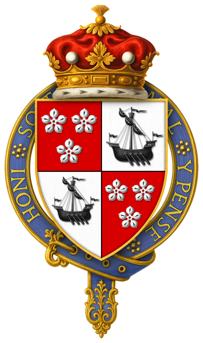 Shield of arms of John Hamilton, 1st Marquess of Abercorn, KG